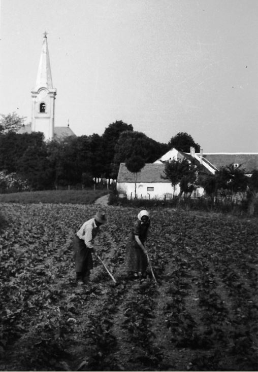 Egyed (Hungary) - the church in 1958